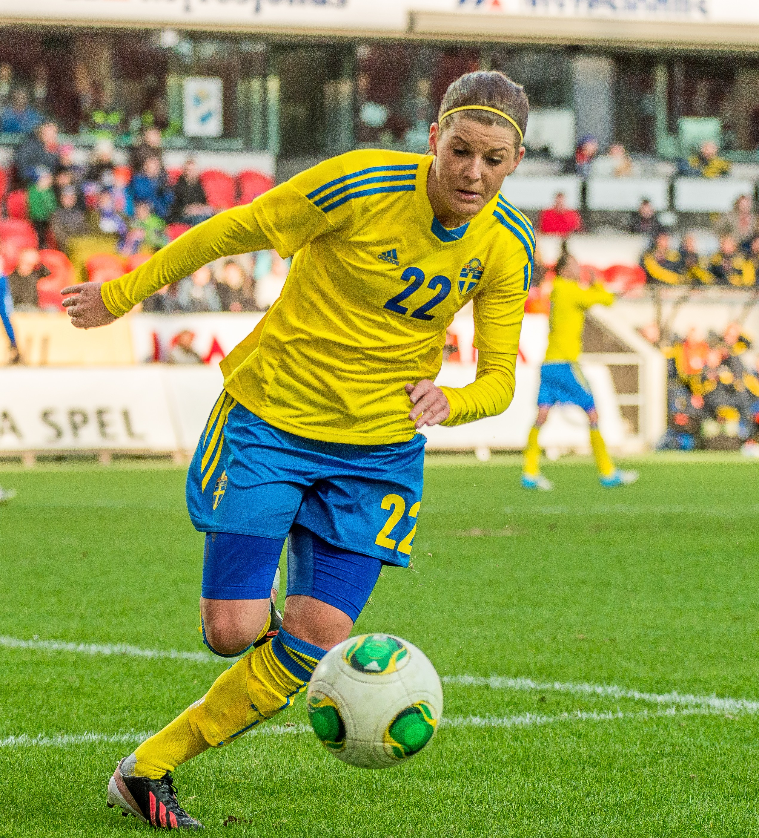 Swedish striker Olivia Schough representing the Swedish Women's National team in the 2-0 victory over Iceland at Myresjöhus Arena, 6 April 2013.